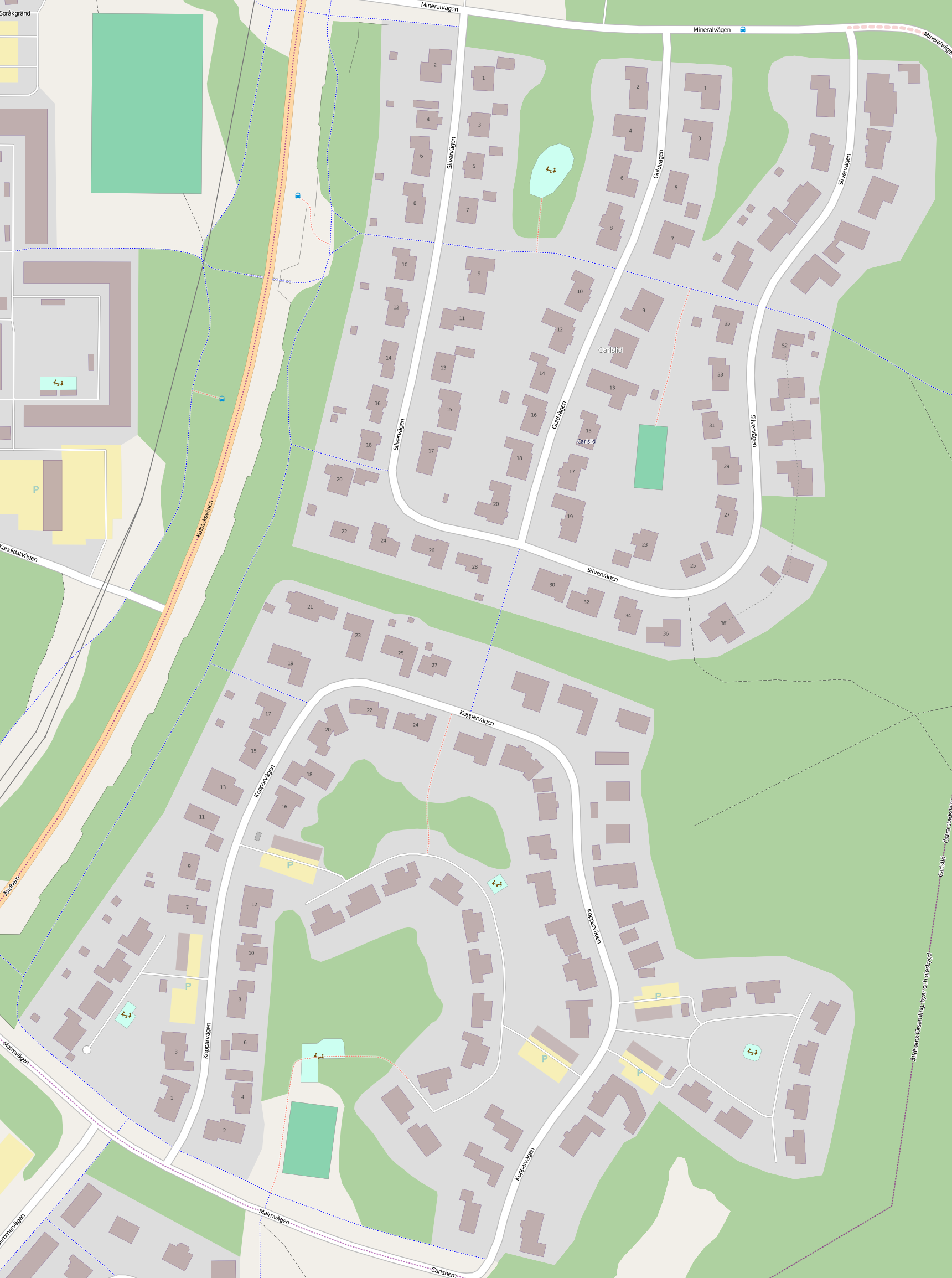 This map of Carlslid was created from OpenStreetMap project data, collected by the community. This map may be incomplete, and may contain errors. Don't rely solely on it for navigation.